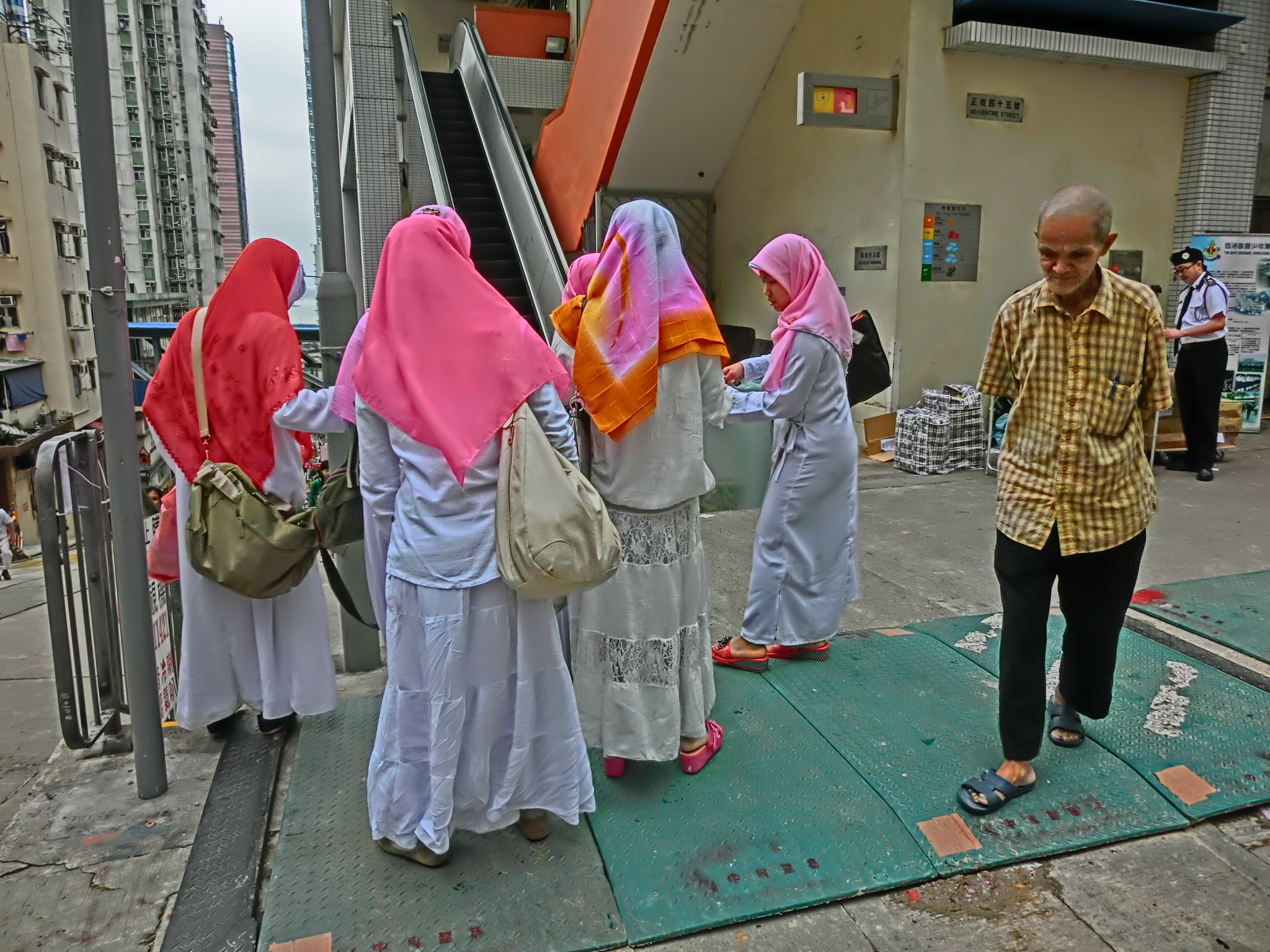 西環第三街, Third Street, Sai Ying Pun, Hong Kong